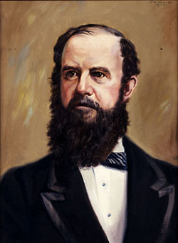 Anthony Musgrave, Governor of British Columbia and Vancouver Island, 1869-1871